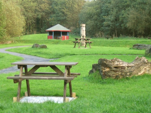 Picnic tables at Mynydd Mawr Woodland Park. This picnic area is near the main car park at the south entrance from Tumble.